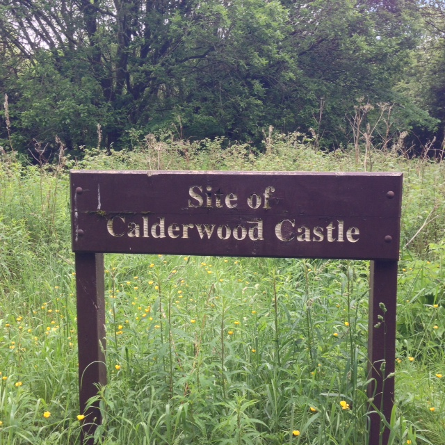 Canderwood Castle photograph taken in 2014